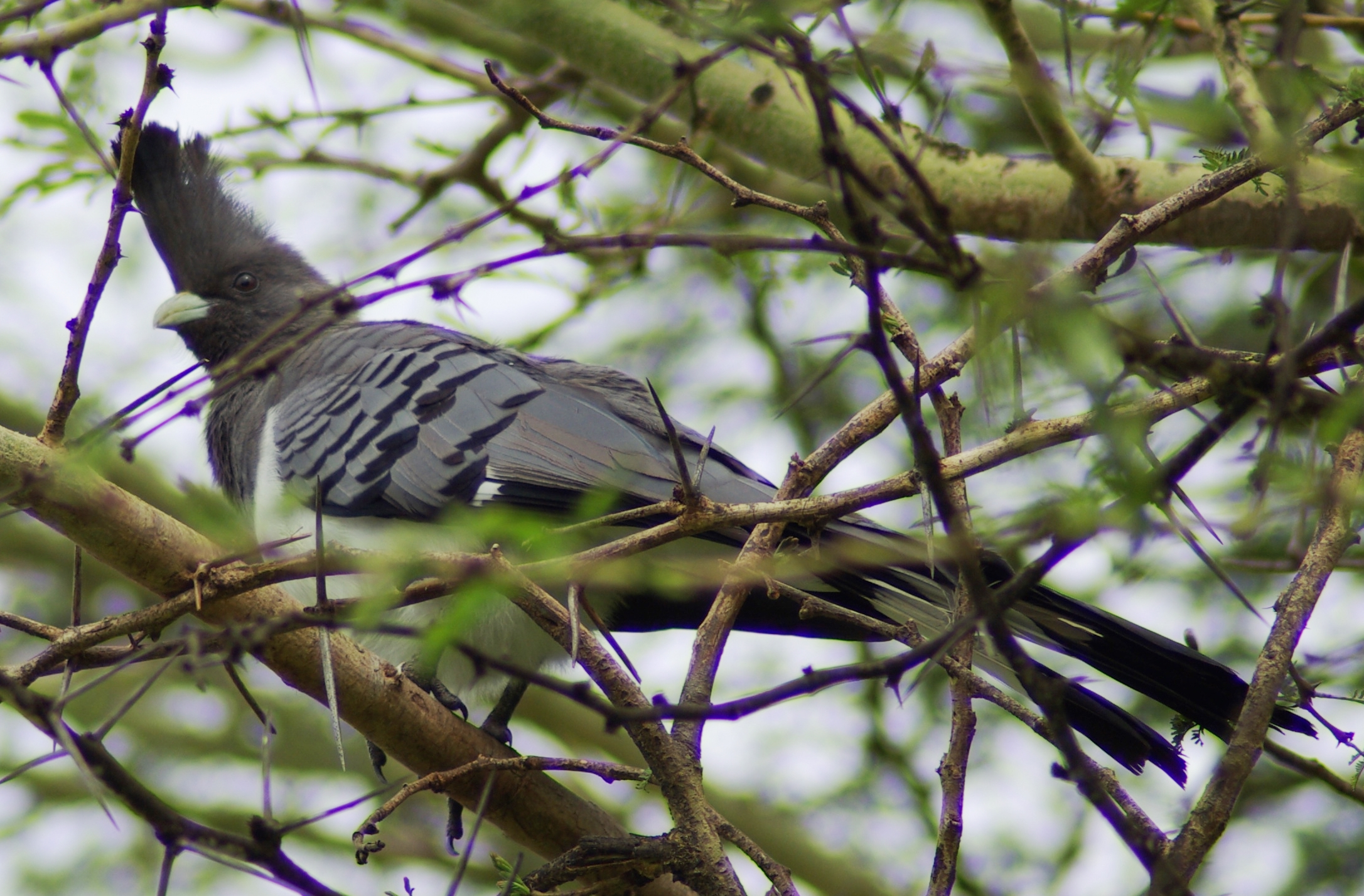 Female White-bellied Go-away-bird, Corythaixoides leucogaster, Sweetwaters Tented Camp, Kenya. The time stamp is 10 hours too early. Sorry about the violet parts.